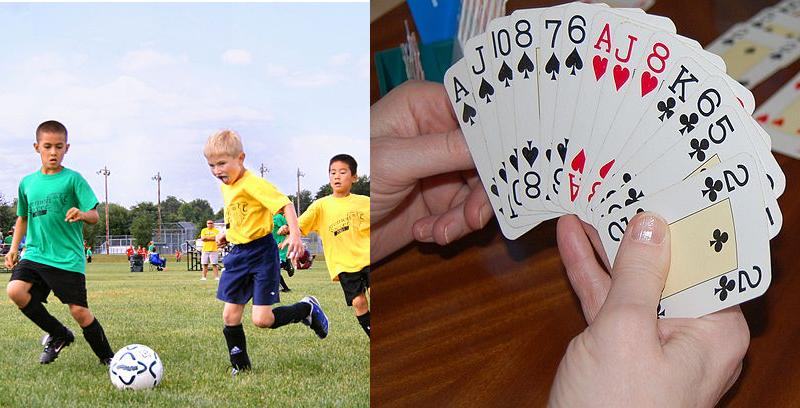 It seems that there is nothing in common among Bridge and Soccer, but we conceder them both as games because they have many things in common with other games like paired Tennis.